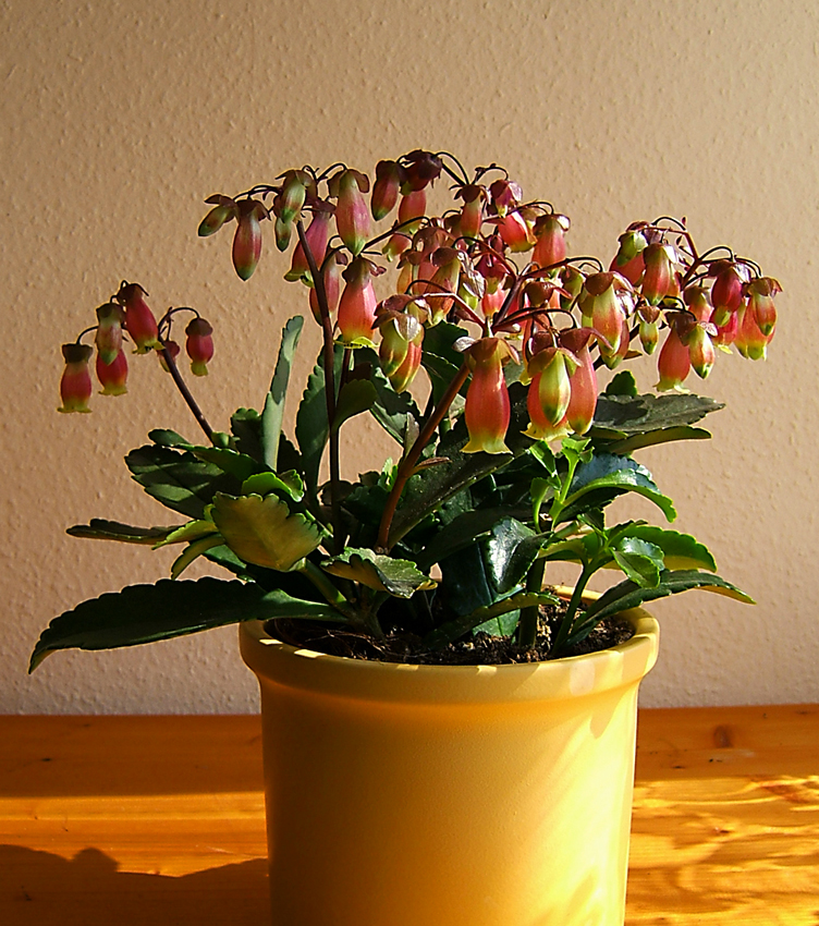 Kalanchoe miniata Hils. & Bojer ex Tul. Synonyms: Bryophyllum miniatum (Hils. & Bojer ex Tul.) A.Berger; Kalanchoe subpeltata Baker; Kitchingia miniata (Hils. & Bojer ex Tul.) Baker